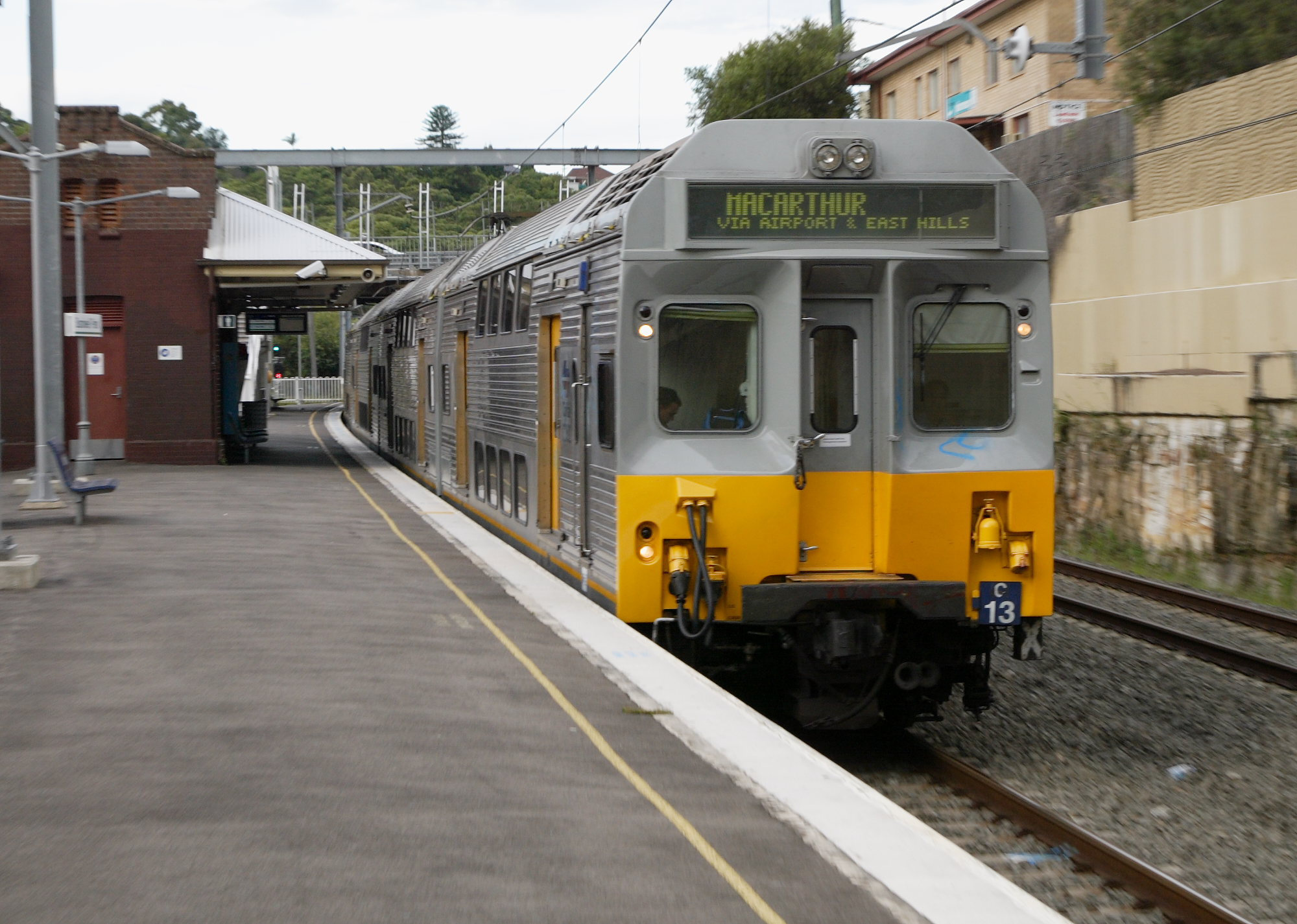 C set 13 passes Bardwell Park station at speed.